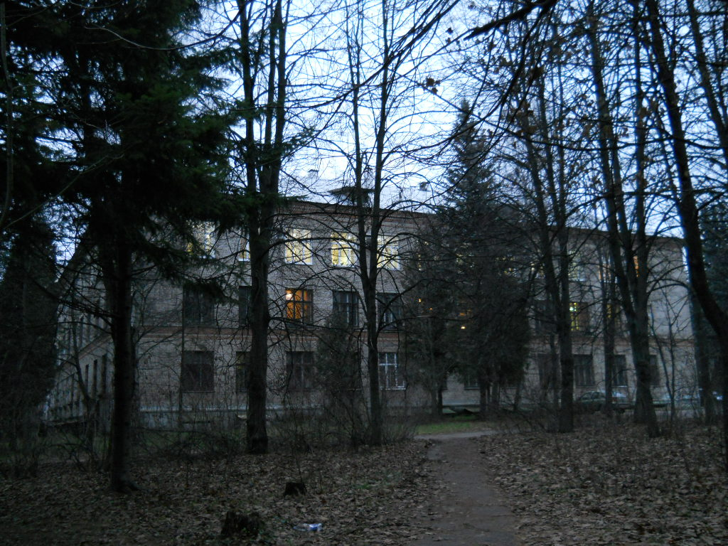 Pushkino (Moscow region, Russia), VNIILM, south wing.